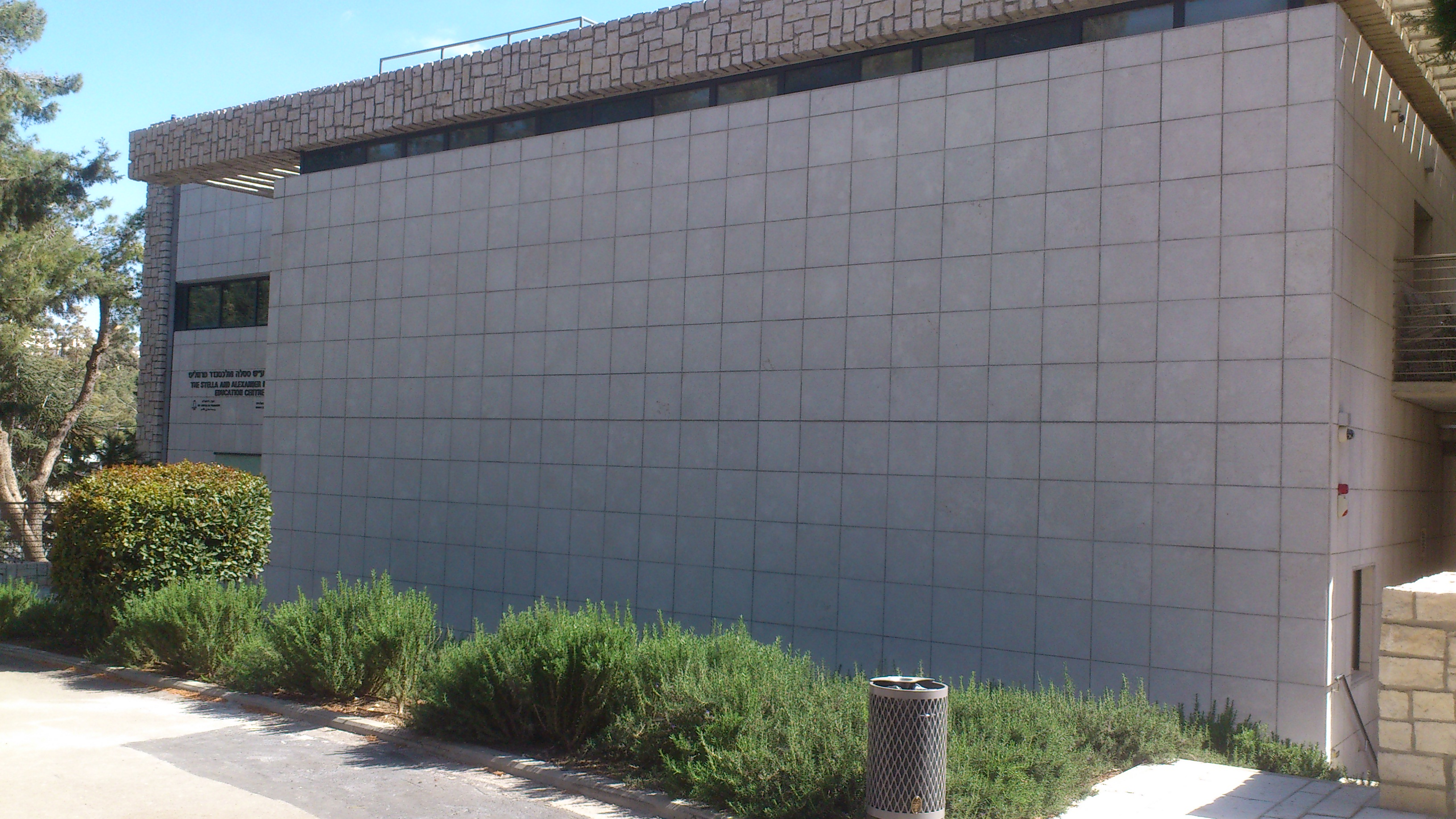 The Mount Herzl - Educational Center